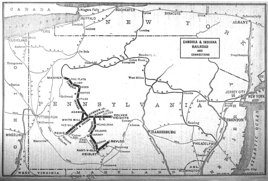 Map of Cambria and Indiana Railroad in 1923. The scale of the map is severely distorted.